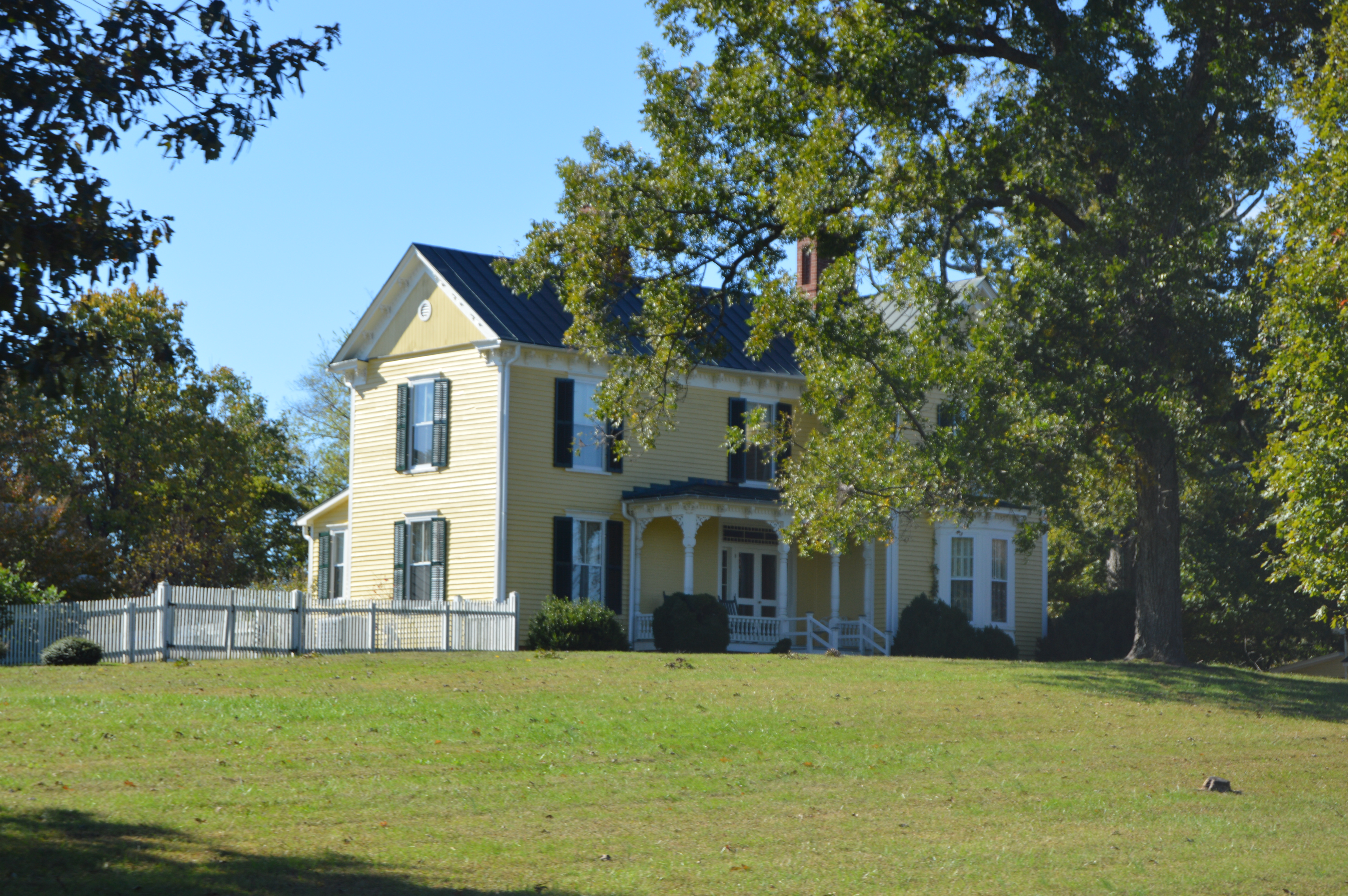 Eastern side and front of Wildwood, located at 5680 Stephentown Road southwest of Semora in Caswell County, North Carolina, United States. Built in 1893, it is listed on the National Register of Historic Places.